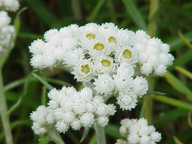 Species: Anaphalis margaritacea Family: Asteraceae Image No. 3